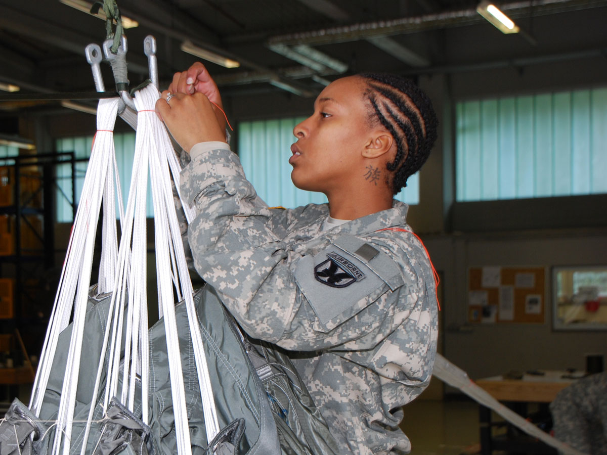 PFC. Shalice Mosby, a rigger with the 5th Quartermaster Company, 21st Special Troops Battalion, practices attaching the Firefly Joint Precision Air Delivery System to a load during a new equipment training course held at Rhine Ordnance Barracks, Sept. 18. The 5th QM Co. is the first regular Army unit to train on the Firefly JPADS.